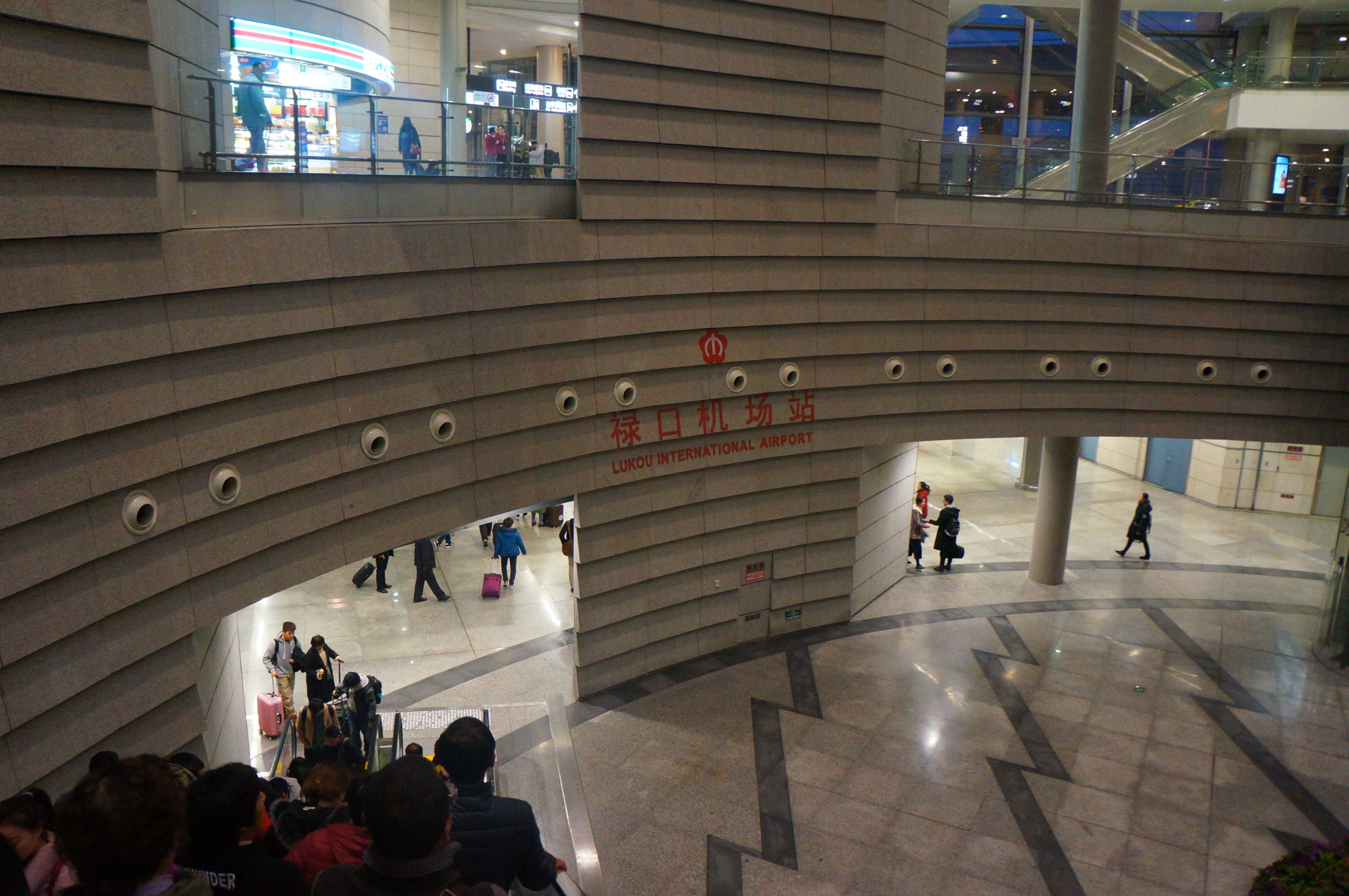 201712 Entrance to Lukou International Airport Station